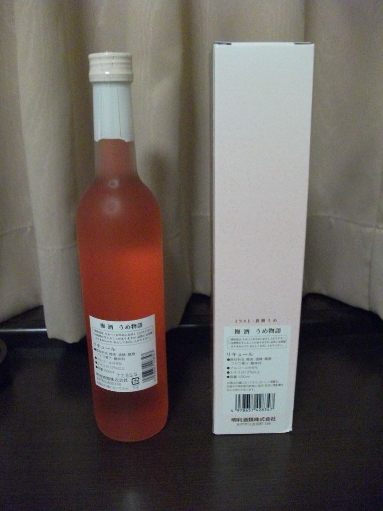 Umeshu "Ume-monogatari"